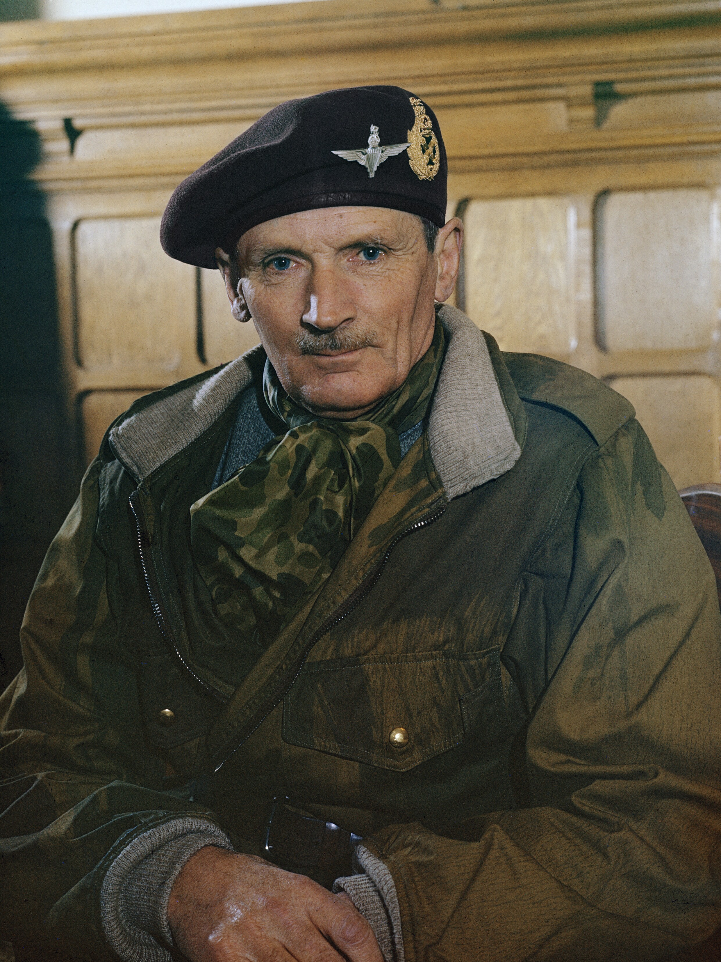 Portrait of Field Marshal Sir Bernard Montgomery on his appointment as Colonel Commandant of the Parachute Regiment, 1944. Portrait of Field Marshal Sir Bernard Montgomery on his appointment as Colonel Commandant of the Parachute Regiment. Field Marshal Montgomery is wearing the beret and jumping jacket of the Parachute Regiment. His scarf is similar to those worn by British paratroopers when they were dropped in Normandy on the night of 5 - 6 June 1944.